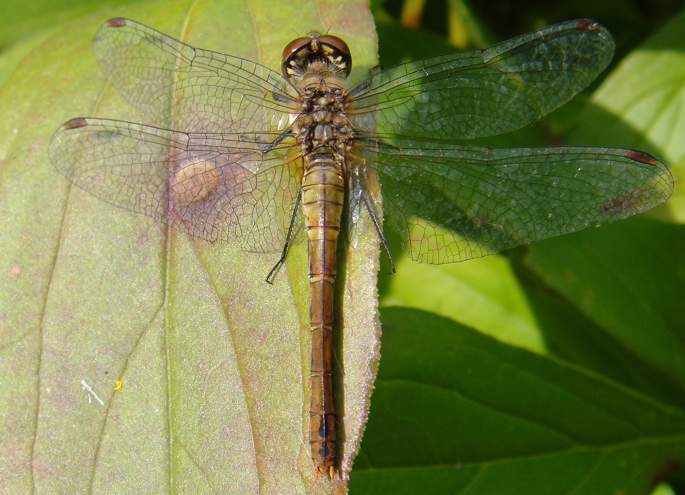 Ruddy Darter (Sympetrum sanguineum), female, imago. Photographed at Podolsk, Moscow region.